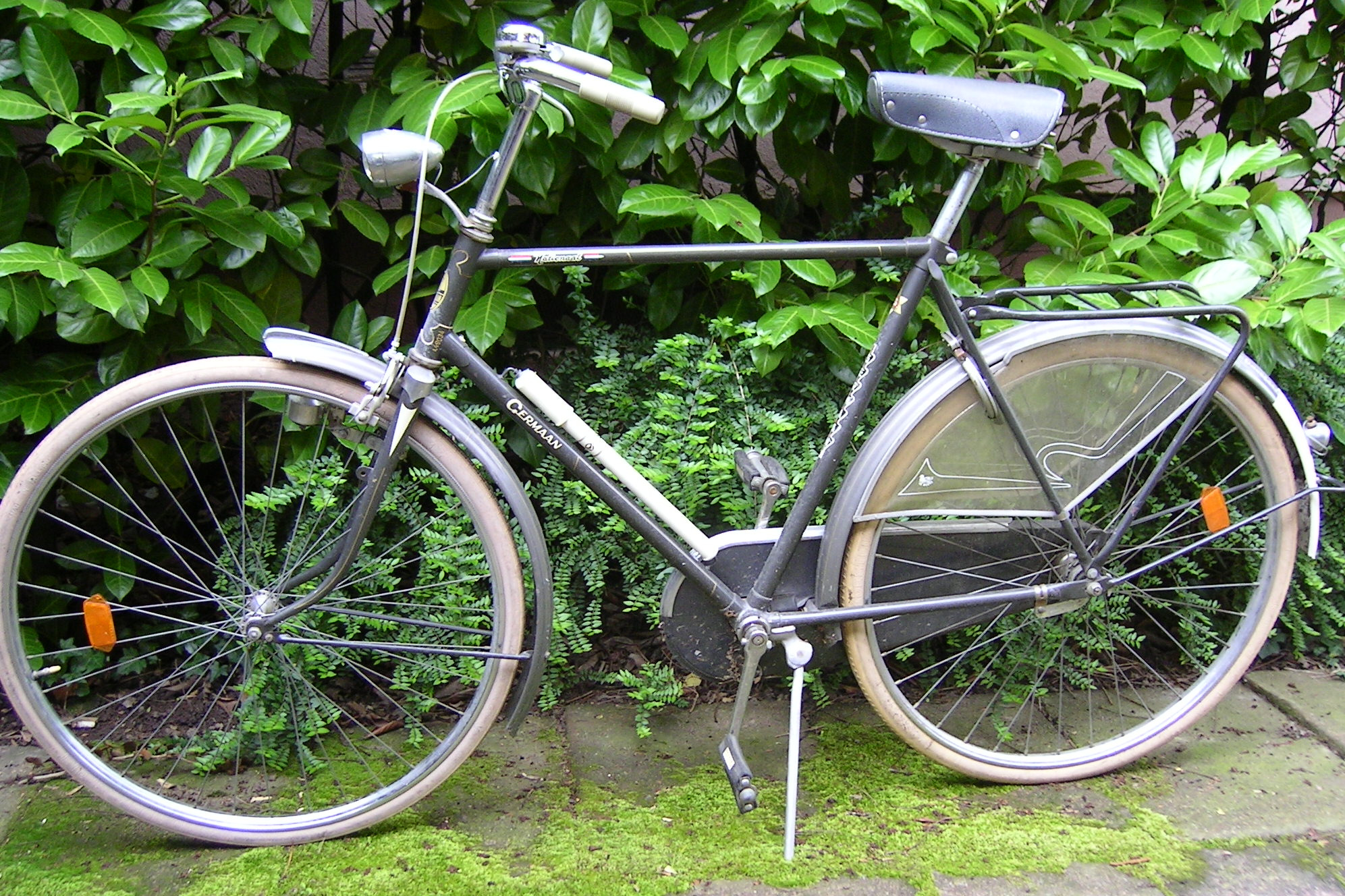 Picture of a Germaan Nationaal Bike